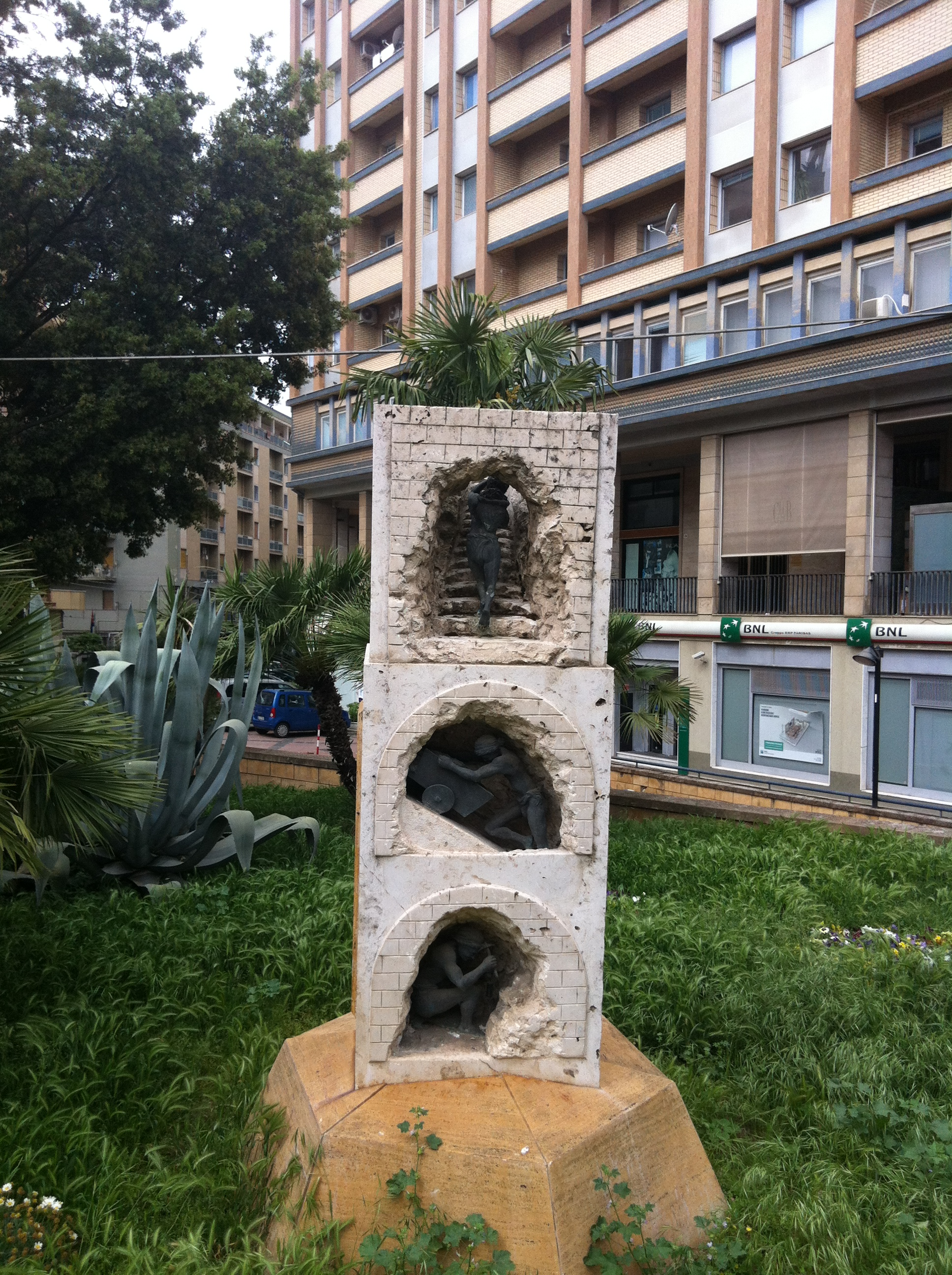 Caltanissetta - Old town: monument to the miner near the knot of Grace.Author Leonardo Cumbo placed in situ on 16 6 2003.[1] Note ↑ a b c DICONO DI NOI Rassegna stampa - S'inaugura il monumento allo zolfataro. La Sicilia (15 6 2003).